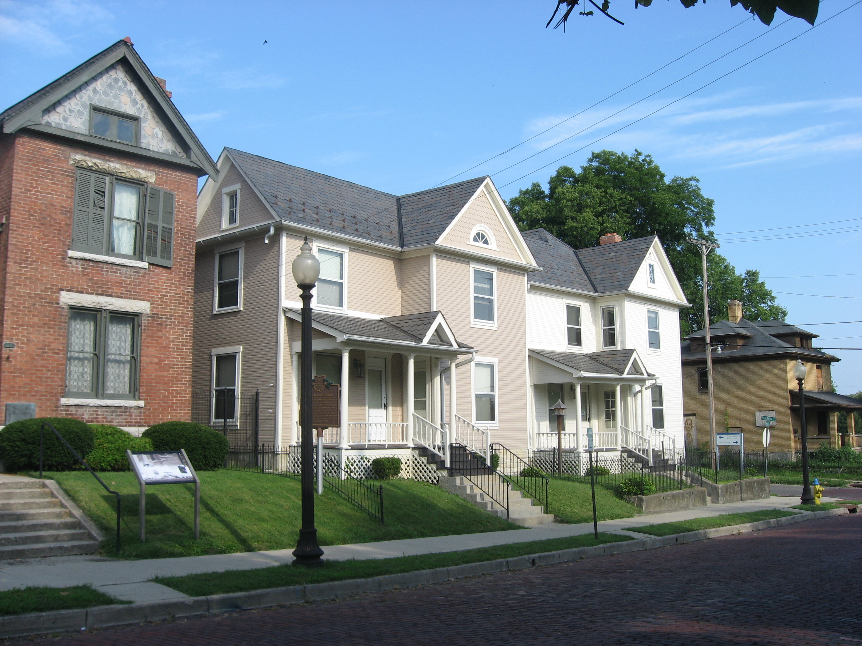 Buildings on the western side of the 200 block of N. Summit Street in western Dayton, Ohio, United States. These houses are part of the Dunbar Historic District, a historic district that is listed on the National Register of Historic Places. Note the Paul Laurence Dunbar House, the brick house partially visible on the left edge of the photo; it has been designated a National Historic Landmark, and it is part of the Dayton Aviation Heritage National Historical Park.